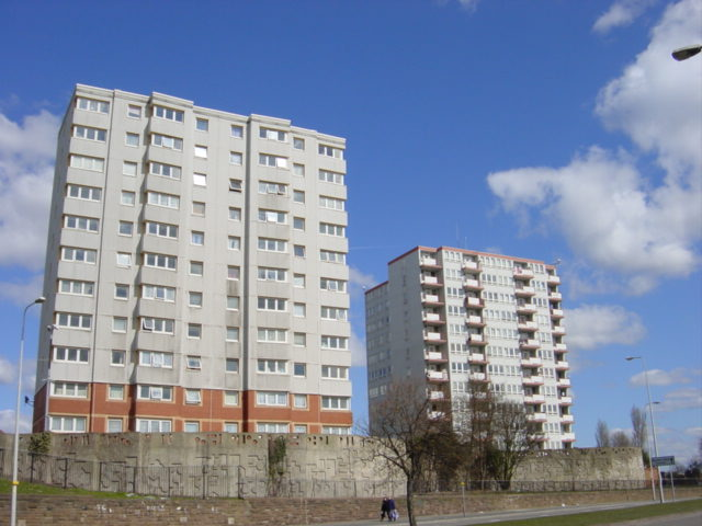 Knowsley Heights, Huyton, England at grid reference SJ440920 at the junction of Primrose Lane with Liverpool Road (A57 road), Huyton.